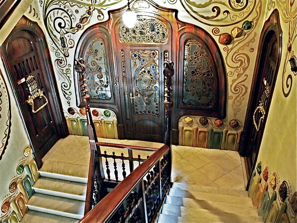 Like a tribute to Gaudí, the Casa Comalat contains many elements of Gaudí's architecture, and is one of the most original examples of home-grown art nouveau in Barcelona: modernisme. Two distinct façades, both of them showing the influence of the curve redolent of the work of the Reus-born maestro, arouse our curiosity to go and take a closer look at this beautiful and unique building. The architect Salvador Valeri i Pupurull worked on the Casa Comalat from 1906 to 1911, and was clearly influenced by Gaudi's organic forms. Dating from the final phase of the "modernista" era, this is a highly original building comprising two façades with a common element: the Gaudiesque curve. The main façade, which overlooks Barcelona's Avinguda Diagonal, is made of stone and is more symmetrical and regular in shape. At street level, there is an interesting wrought-iron doorway and, above it, a central gallery surmounted by a pinnacle. At the top, a series of openings cut into the façade and surrounded by stone garlands jut out above the remaining curved balconies with their floral motifs. The building is surmounted by a turret in the shape of a harlequin's hat clad in glazed green ceramics. This colourful element dominates the rear façade of the building which overlooks Carrer Rosselló, and is freer and more informal in style. The irregular wooden galleries give the façade a dynamic look, and the ceramics that decorate the entire façade lend a splash of colour. The parabolic arches over the doors on the ground floor give the building its Gaudiesque feel, and are just another example of the beauty of this unique building.